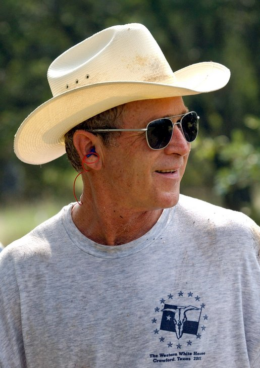 President George W. Bush takes a break during work at his ranch in Crawford, Texas, Friday, Aug. 9, 2002.